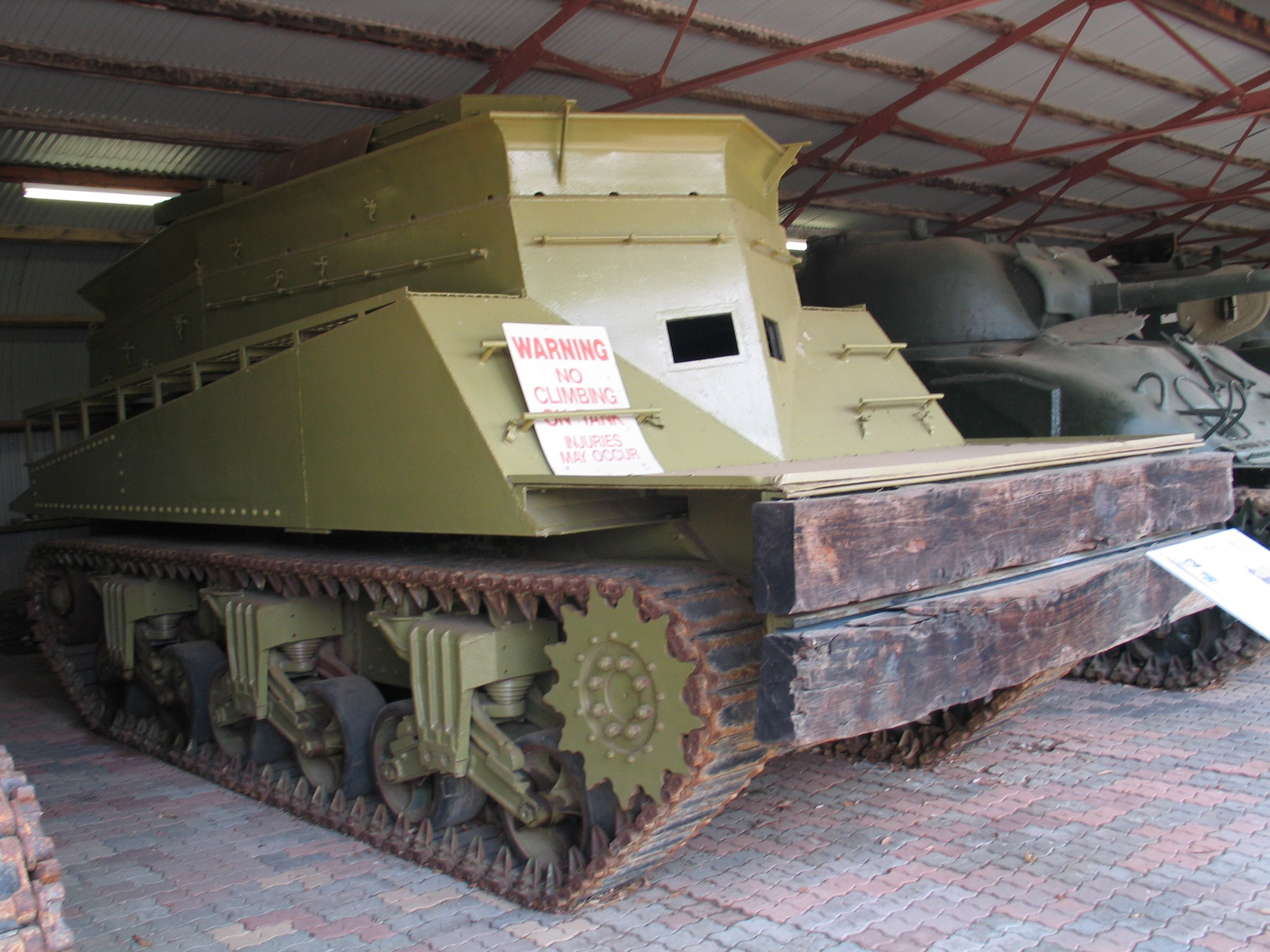 M3 BARV in Royal Australian Armoured Corps Tank Museum, Puckapunyal, Victoria, Australia. Only one vehicle was built.